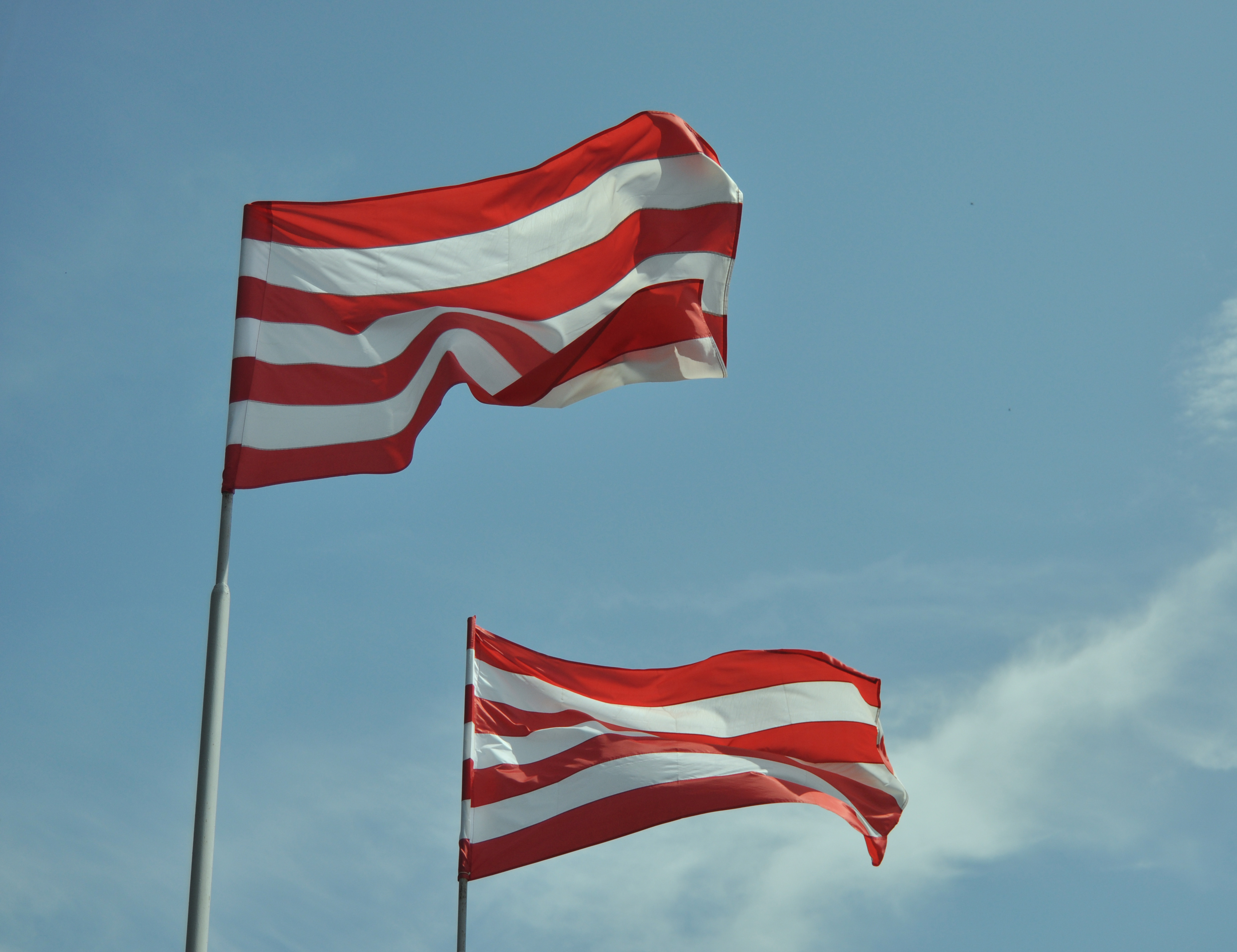 Flag of Kerch, Crimea.